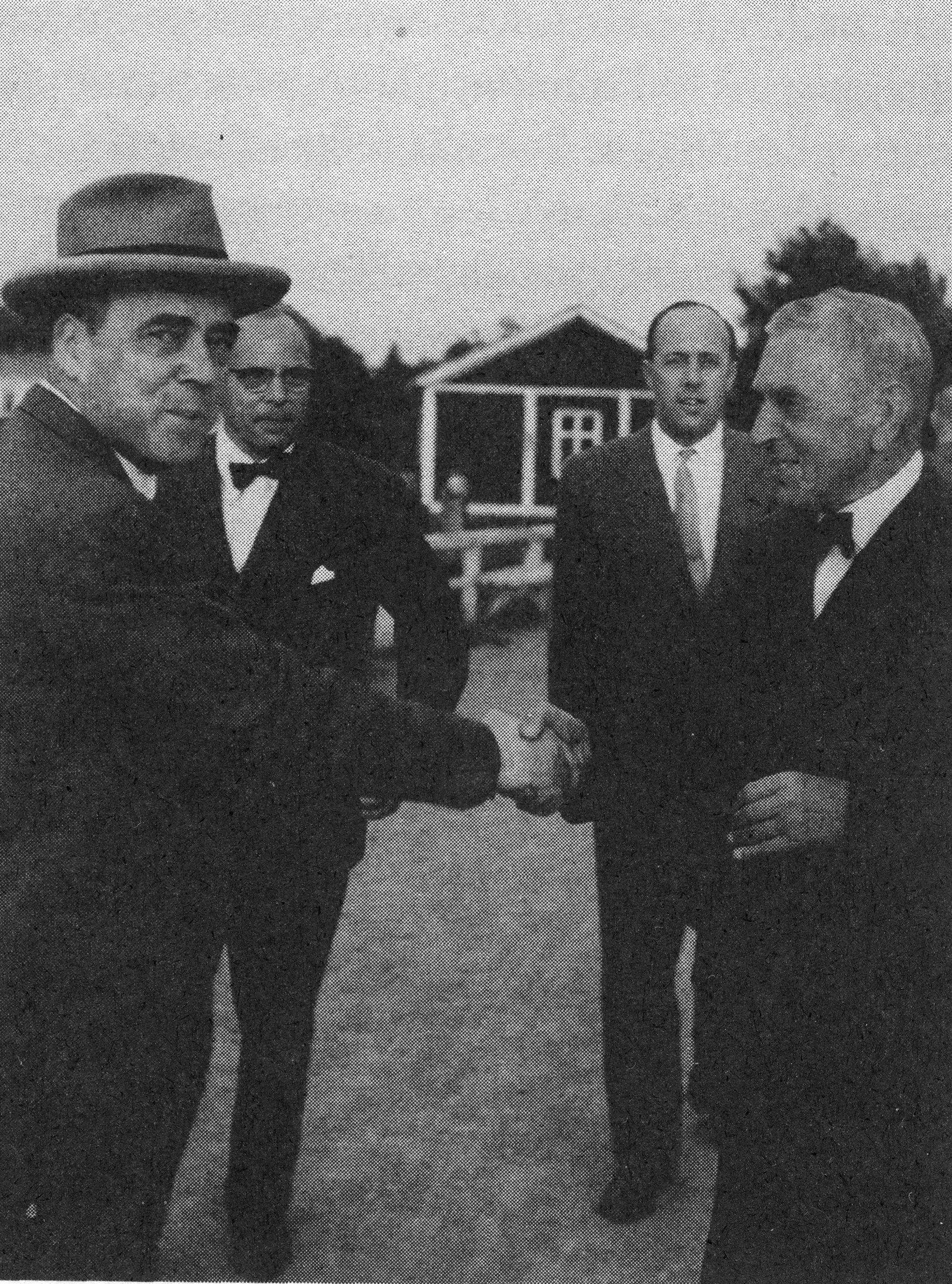 Ralf Törngren, leader of the Swedish People's Party of Finland 1945-55, and John Österholm, chairman of the parliamentary group 1945-60.